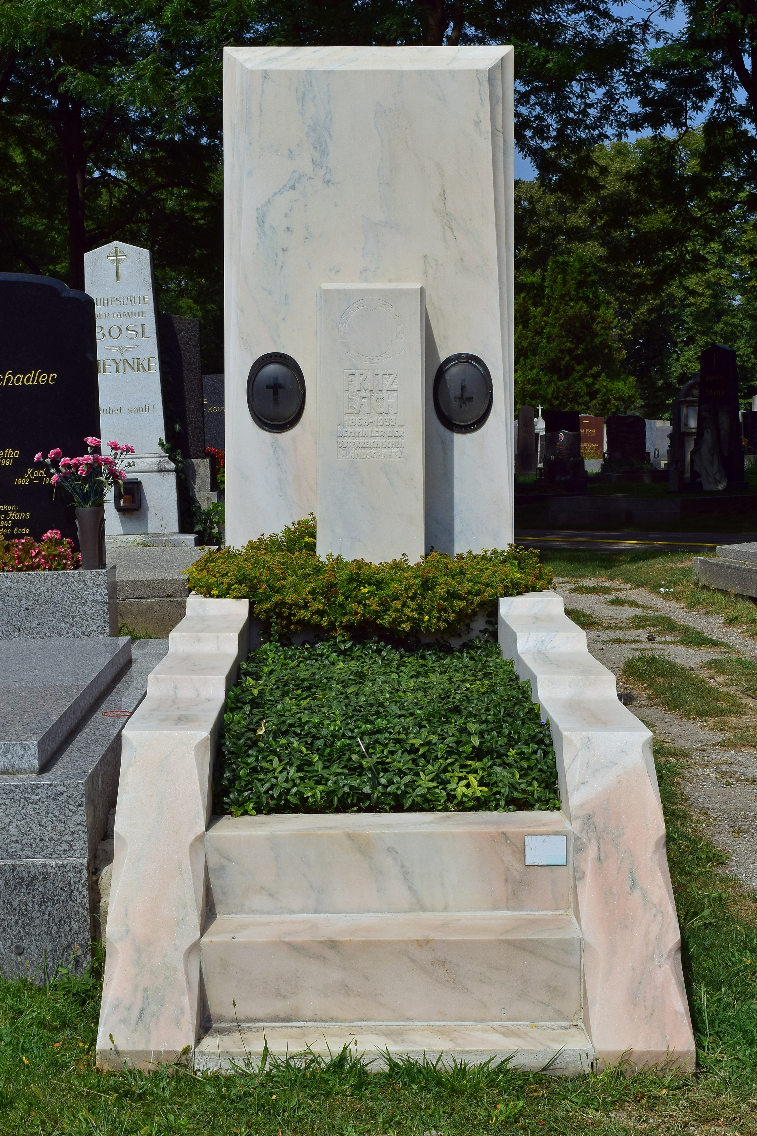 Grave of honor of the Austrian painter Fritz Lach at the Wiener Zentralfriedhof